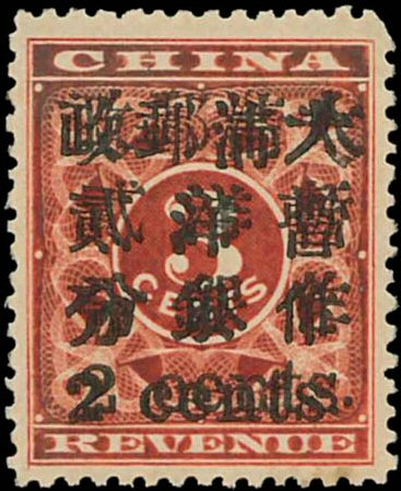 Red 8